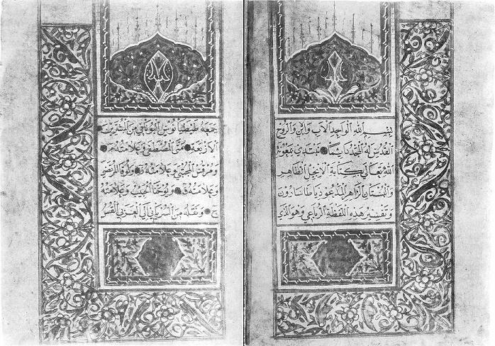 The first two Pages of Arabic Diatessaron, "Borg MS" (Vatican Borg arab. 250). Snapshot of the original Manuscript used by a Publisher (Augustinus Ciasca) in Rome, 1880. Text in Arabic: بسم الله الواحد الاب و ابن و الروح القدس له المجد الدایما. نبتدی بمعونه الله تعالی بکتابه الانجیل الطاهر و البتان الراهر المدعوذ یاطاسادون و تفسیر الهذه المفطه الرباعی و هو الذی جمعه طیطیانوس الیونانی من المبشرین. الاربعه. متی المصطفی و علامته م. و المرقس المجتبی و علامته __. و لوقی المرتضی و علامته ق. و یوحنا الحبیب و علامته ح. و نقله من السریانی الی العربی القس